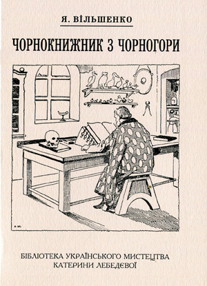 Обкладинка книги "Чорнокнижник з Чорногори"